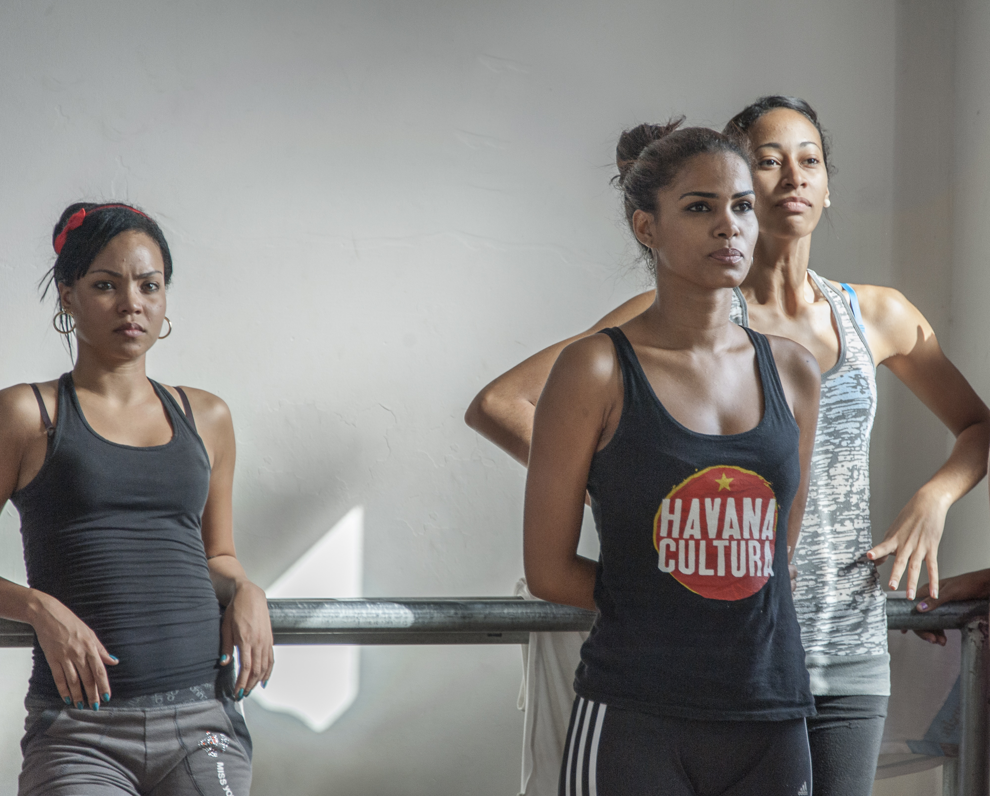 Cuban dance troupe, Havana Jan 2014, image by Marjorie Kaufman